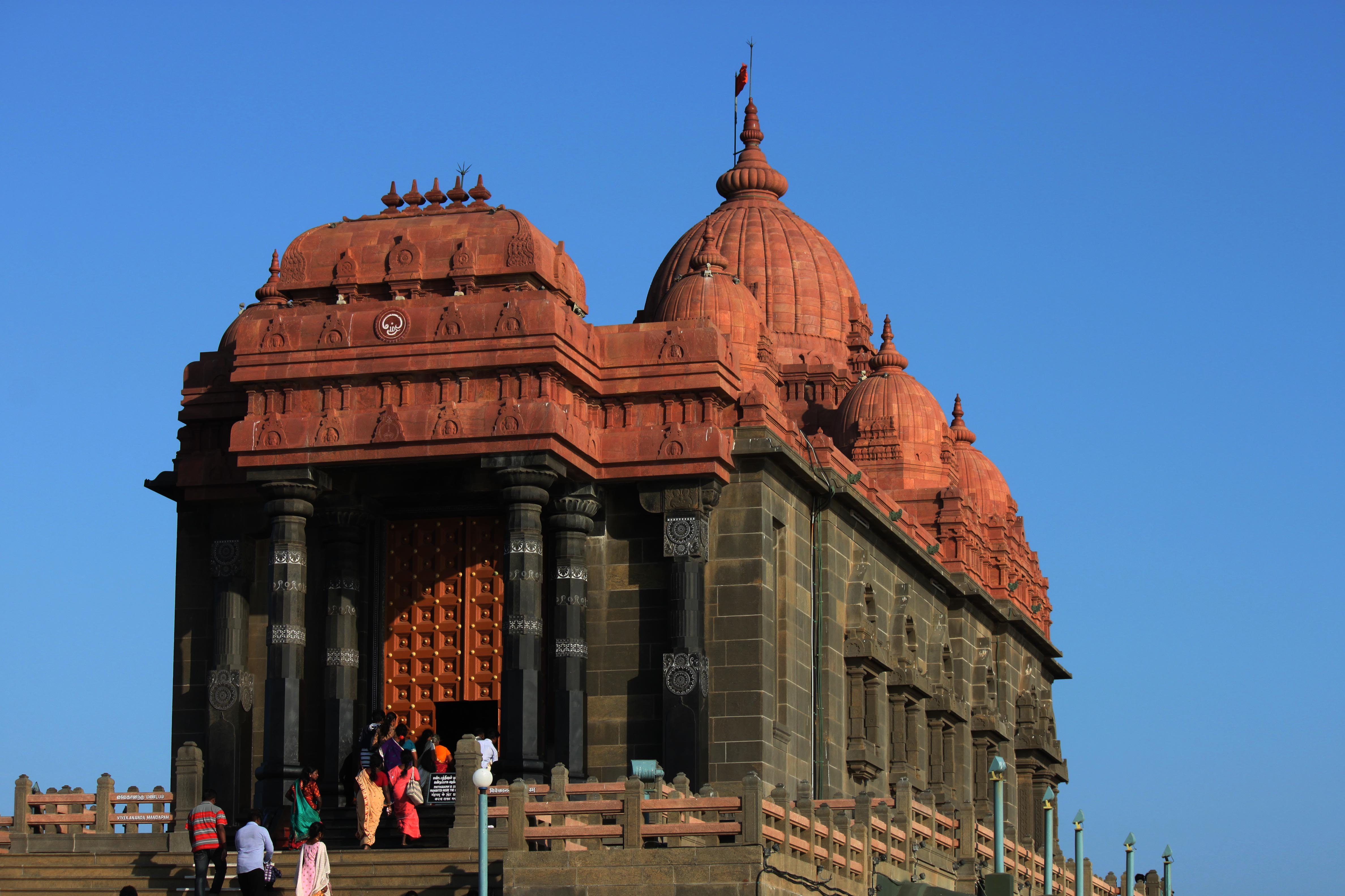 Swami Vivekanand Rock Memorial is situated in Kanyakumari, a coastal island in South India.